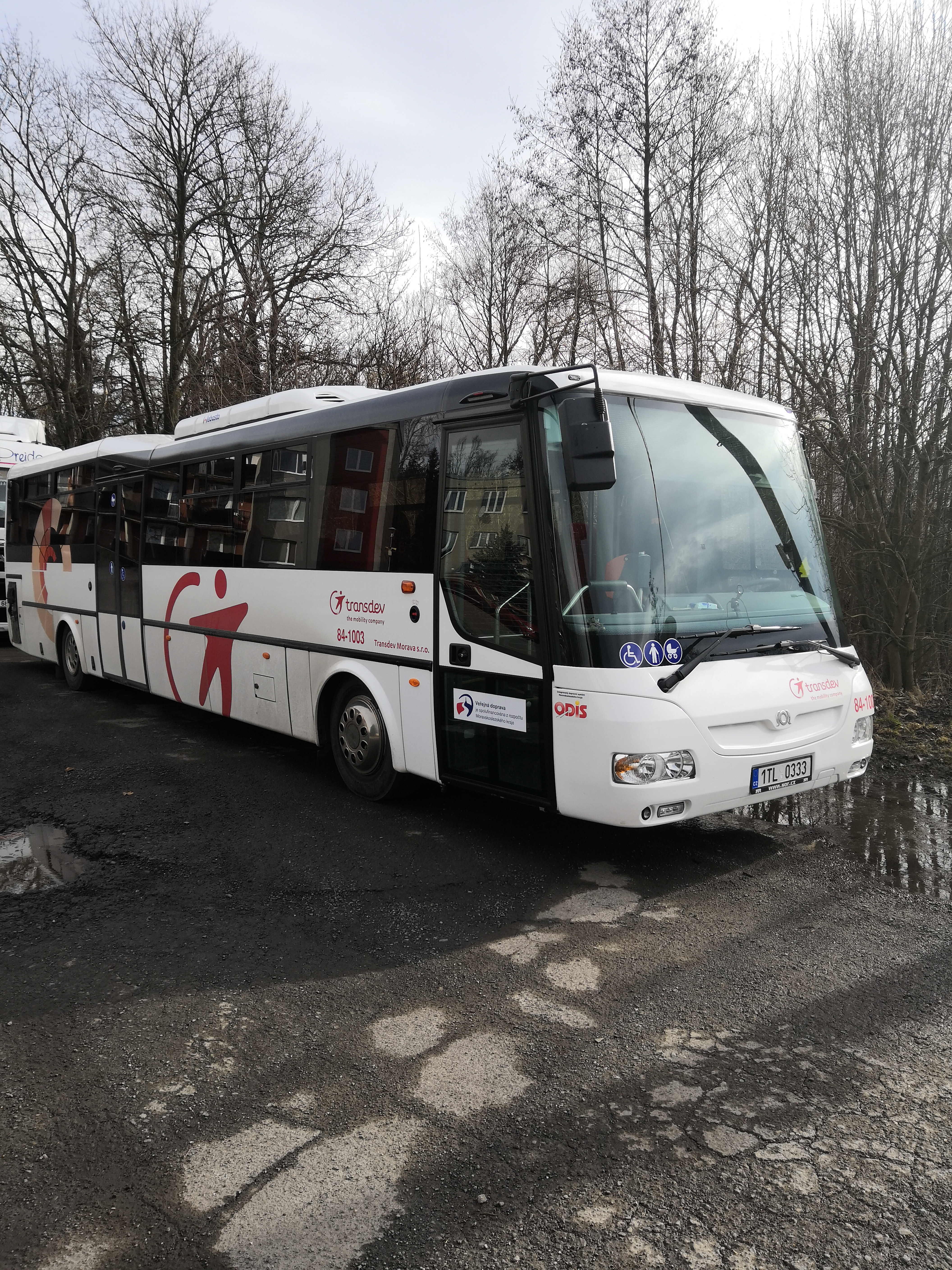 Bus staying in Moravský Beroun